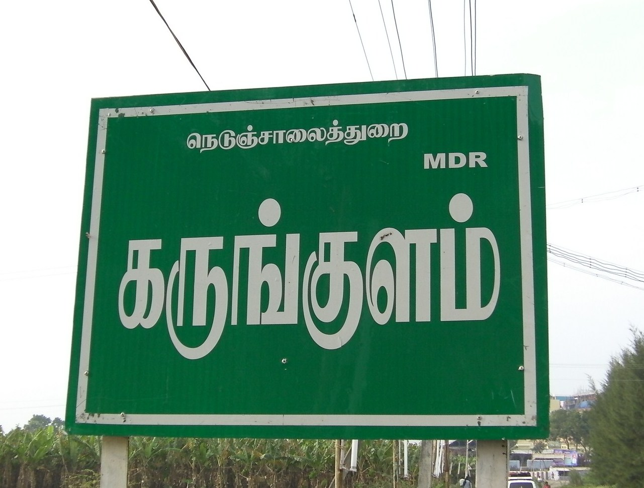 Karungulam